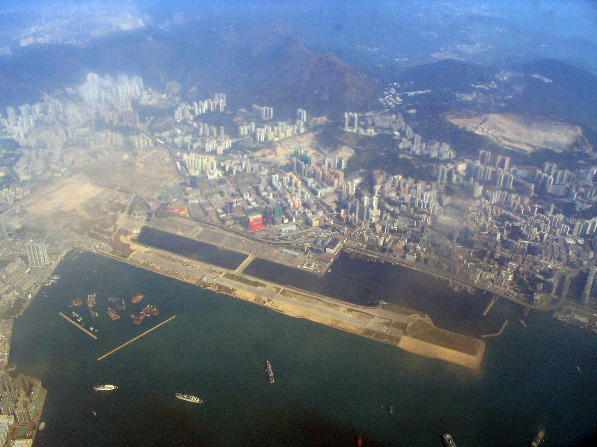 Photo of Kai Tak Airport